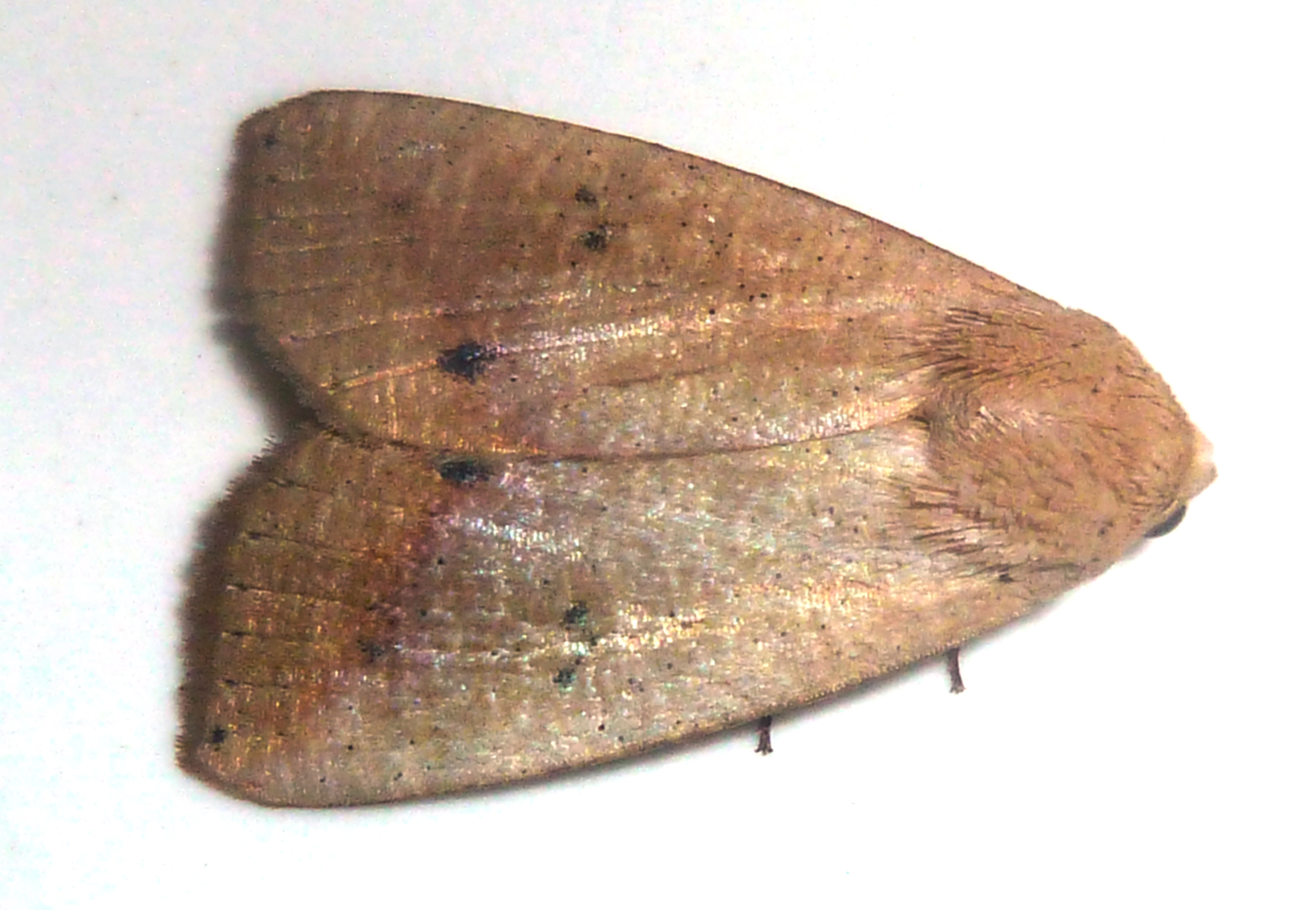 Exophyla multistriata in suburban Pretoria, South Africa